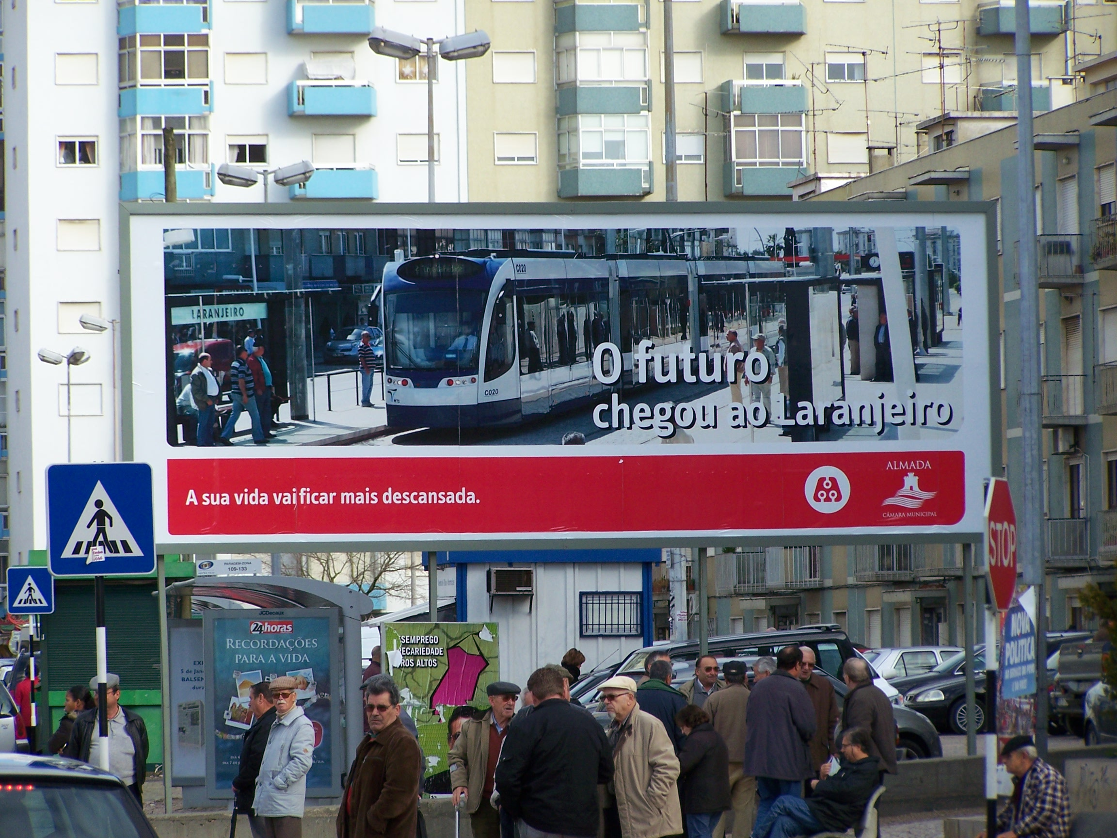 Advertisement for the new tramway system "Metro Sul do Tejo" in Laranjeiro, Almada, Portugal. Siemens Combino Plus tram (#C020), built 2007, on the advertisement.